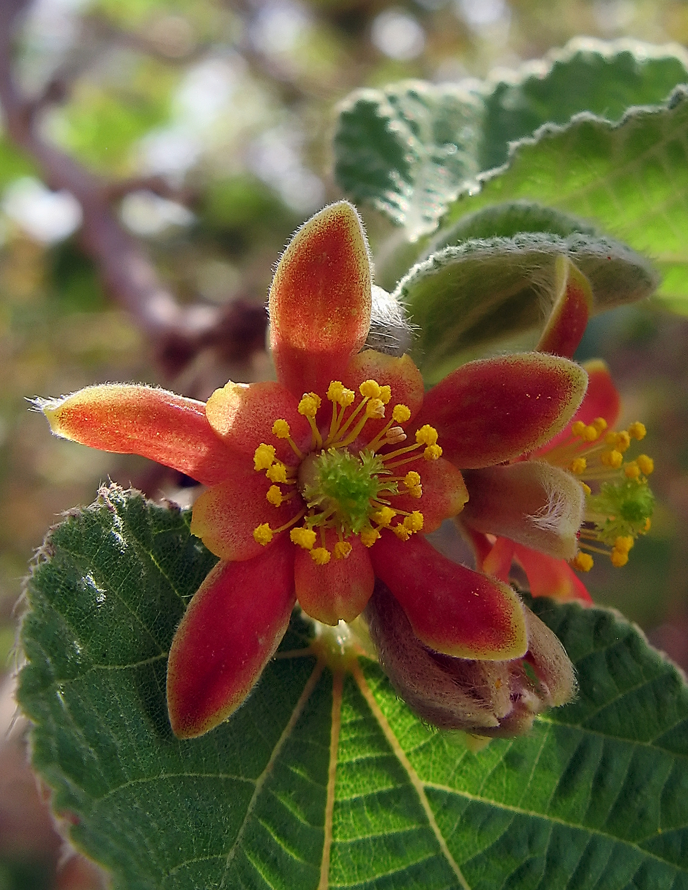 Grewia villosa is locally endangered in some parts of its distribution This picture was taken in Ein Gedi oasis in Israel